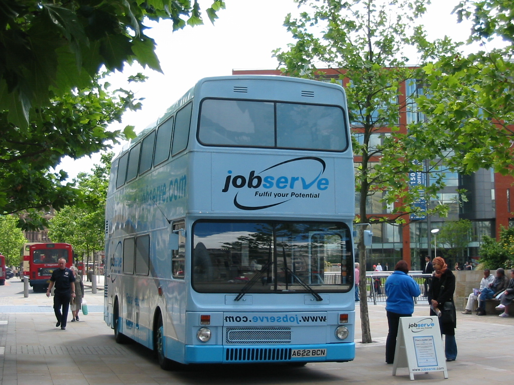 Jobserve A622BCN, a MCW Metrobus Mk II new to Northern General seen in use by a Recruitment Company in Piccadilly Gardens, Manchester.